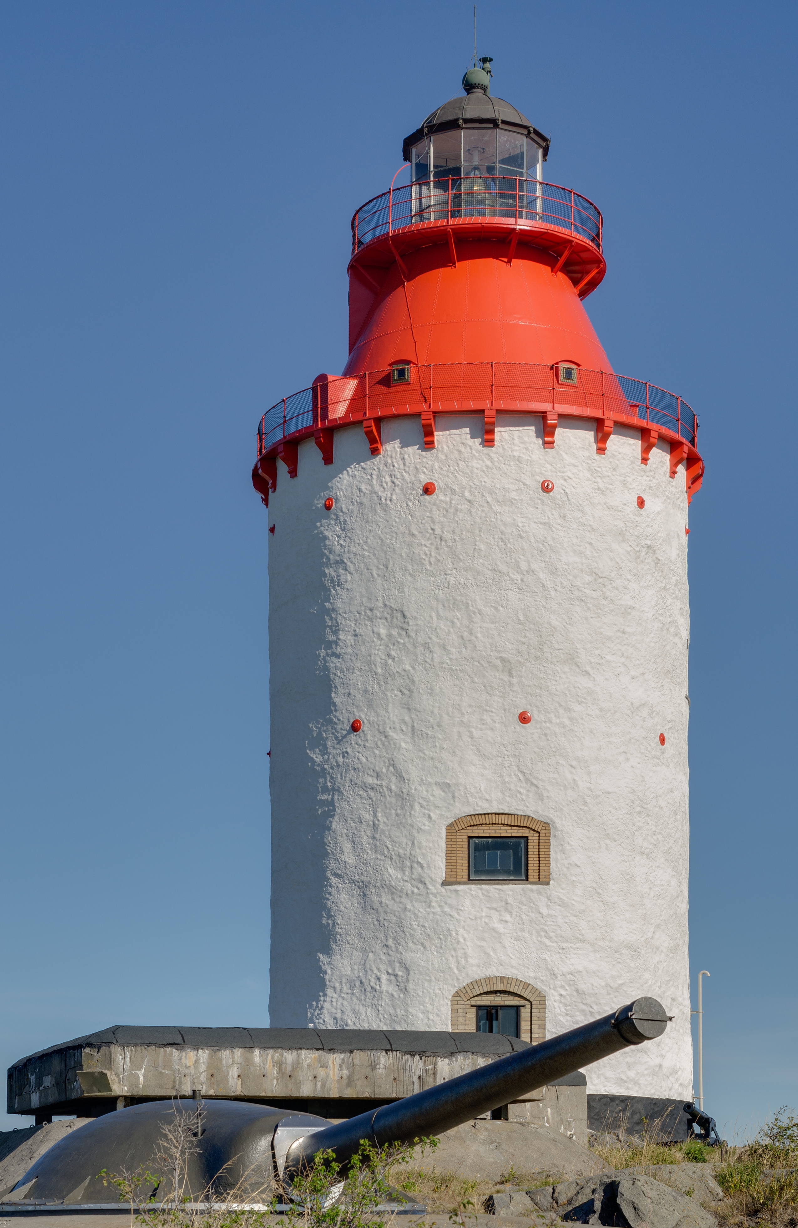 Landsort Lighthouse , Öja island (Landsort), Stockholm archipelago's most southern point. During the Cold War and World War II was Landsort a military base for the Swedish coastal artillery.